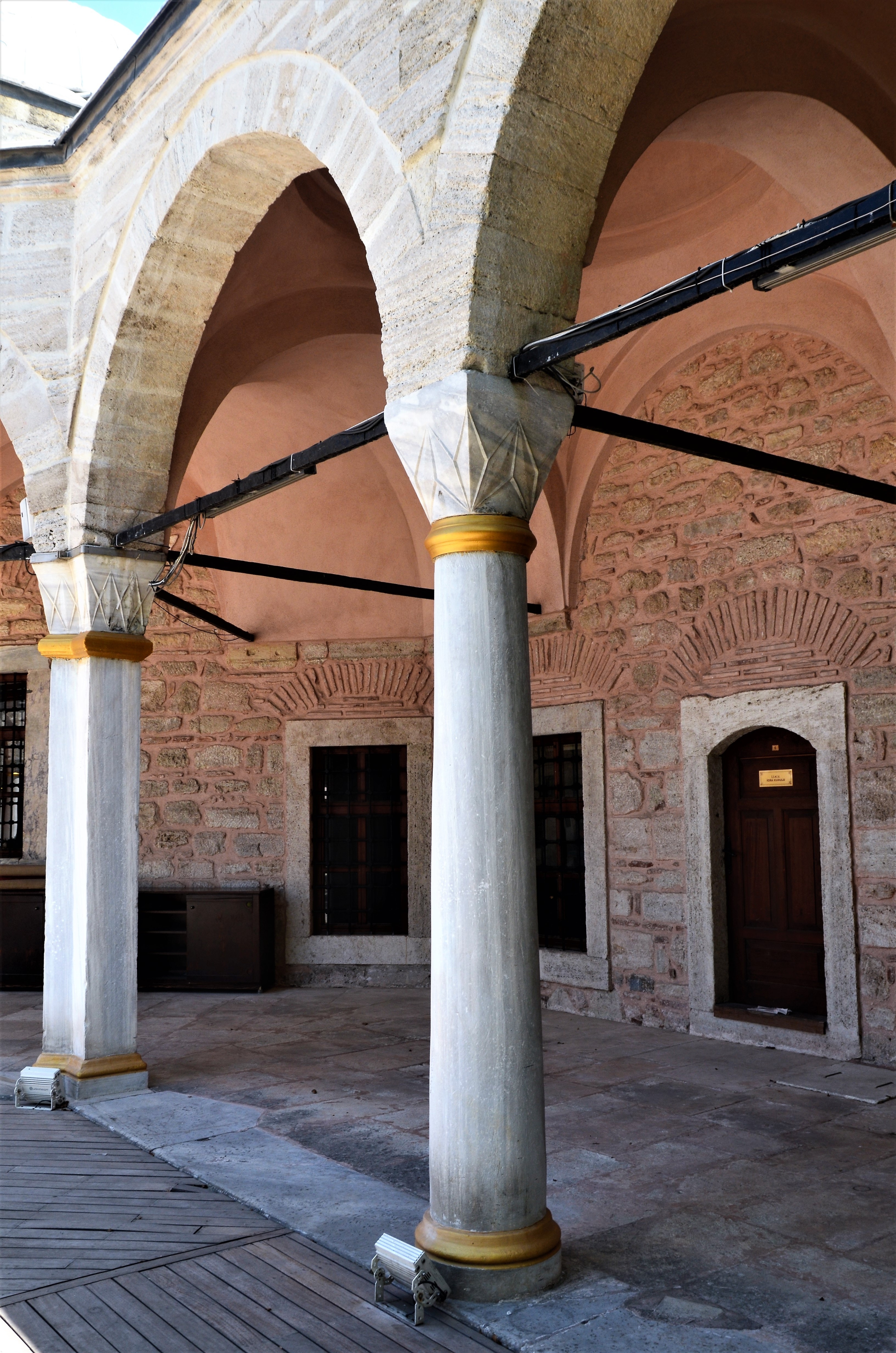 A view of columns of the veranda at the Rüstem Pasha Medrese in Fatih, Istanbul Turkey